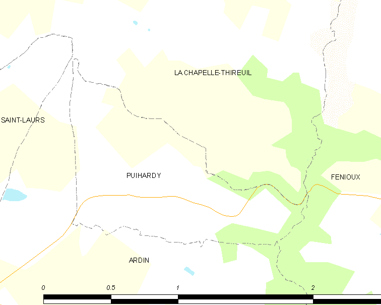 Map of French municipality Puihardy